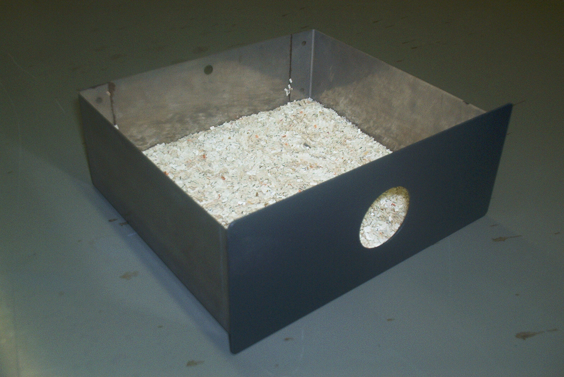 Chip receiver (aka a bit bucket) from a UNIVAC 1710 VIP.